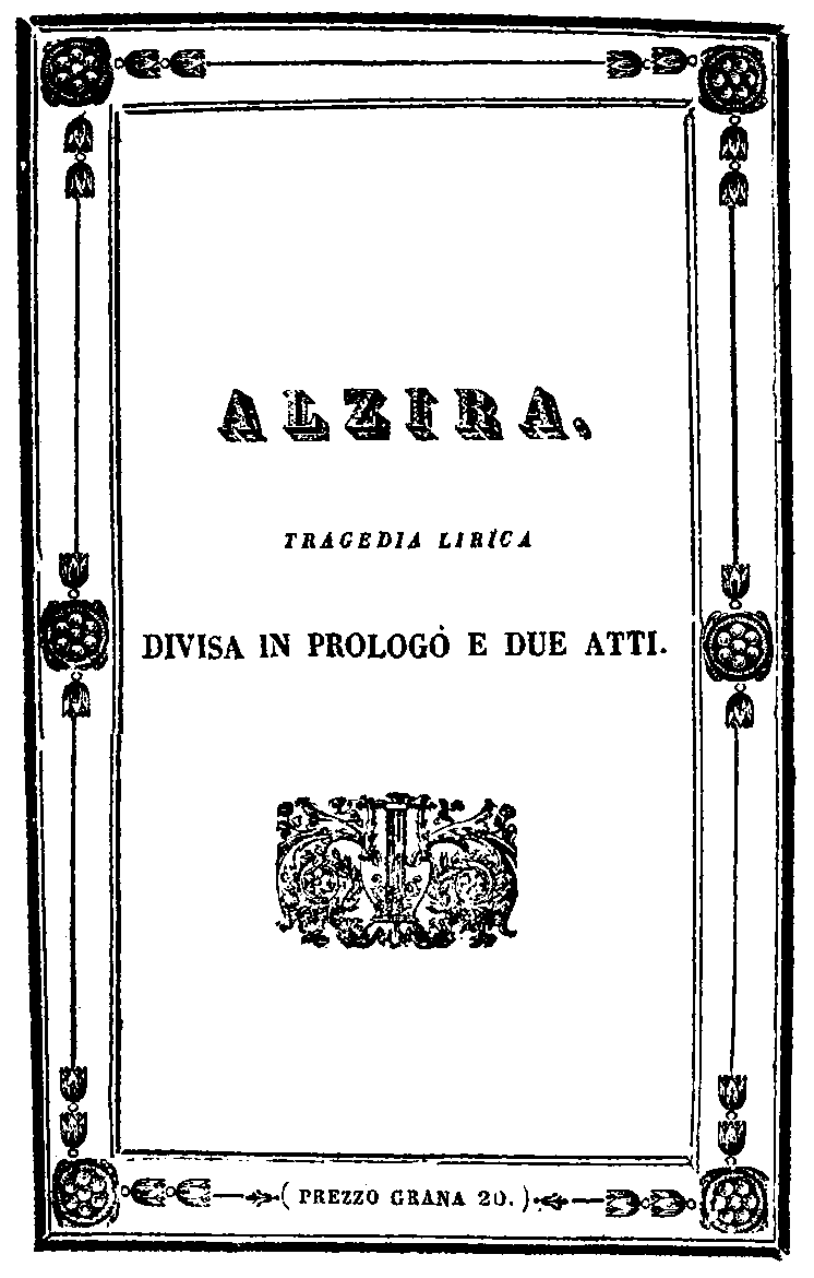 Giuseppe Verdi - Alzira - titlepage of the libretto - Naples 1845